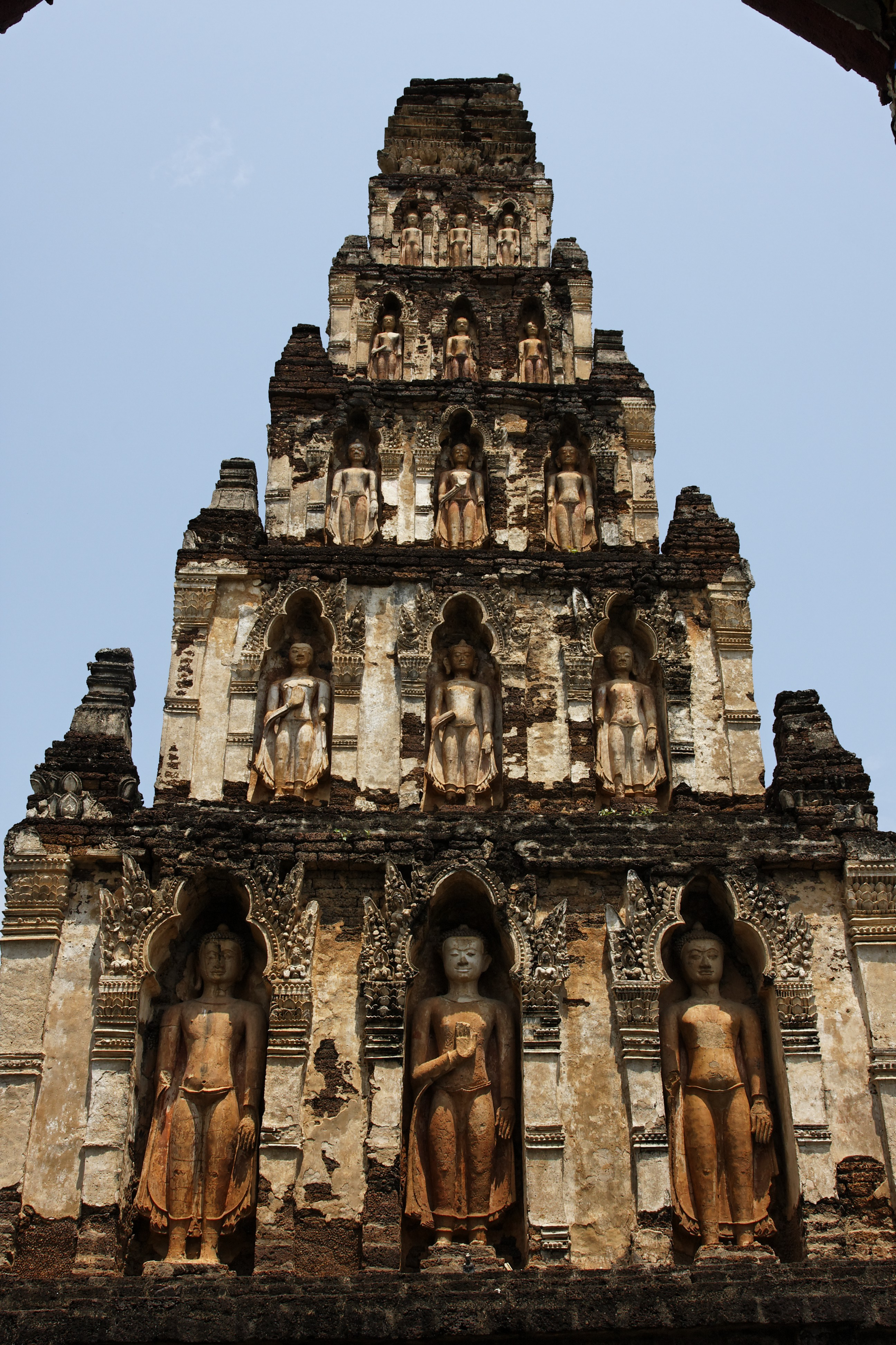 Wat Kukut, Lamphun, Thailand